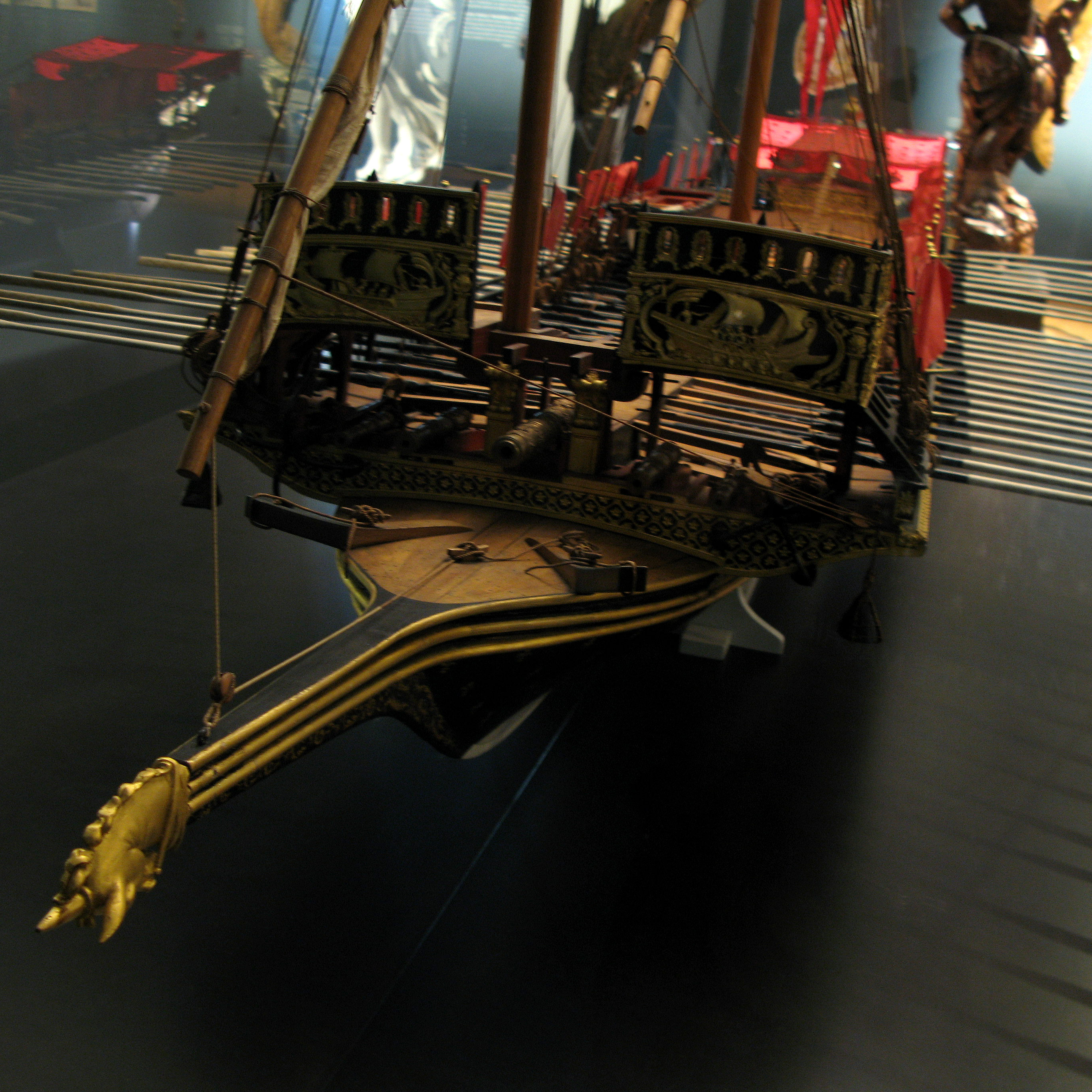 ArtistUnspecified.Description1/16.5th scale model of the Réale. Louis XIV era.Current location Musée national de la MarineNative nameMusée national de la MarineLocationParisCoordinates48° 51′ 43.20″ N, 2° 17′ 15.0″ EEstablished1827Website ReferencesAutres détails de maquettesSource/PhotographerRama1/16.5th scale model of the Réale. Louis XIV era.